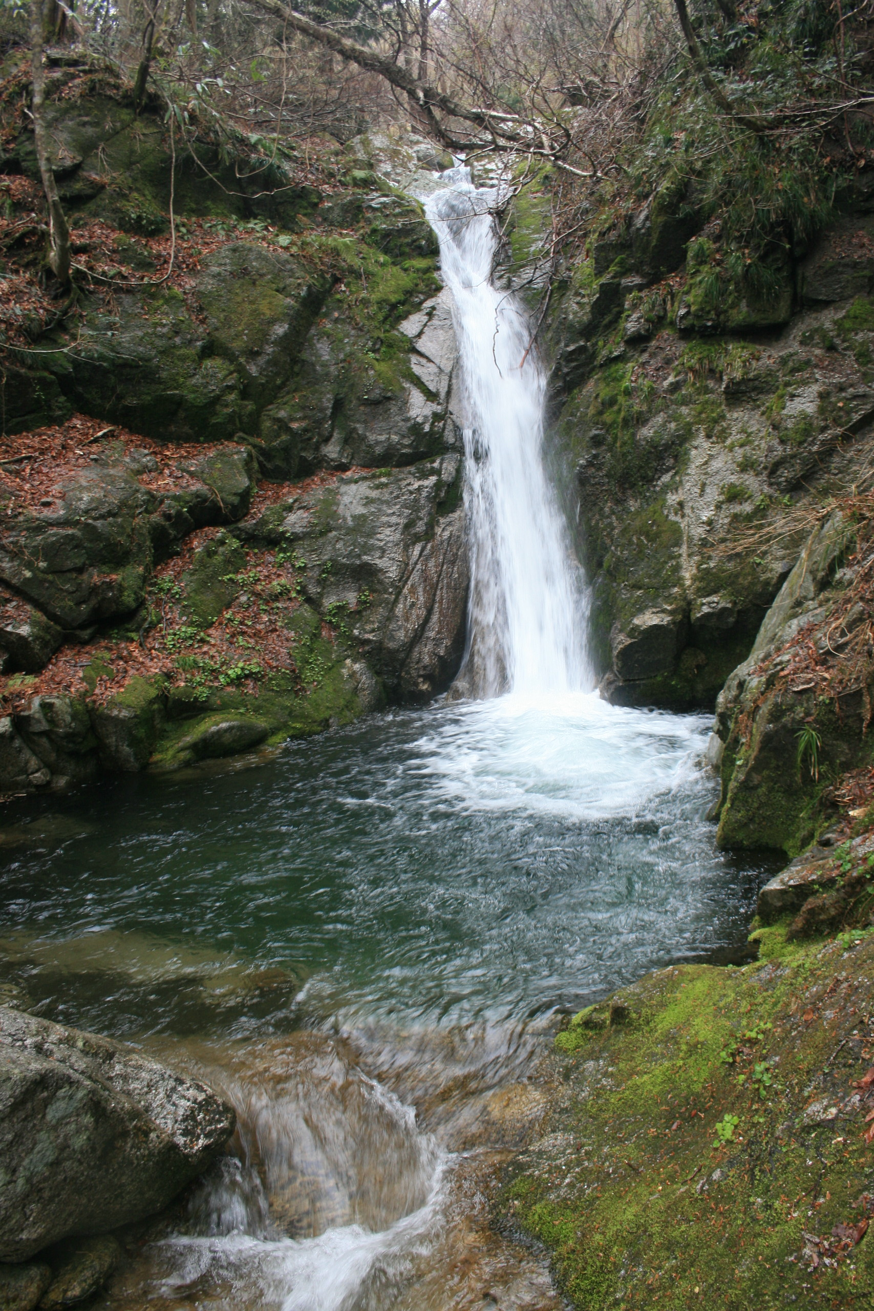 ShōShfōuchi fall, in Ibigawa, Gifu, Japan.